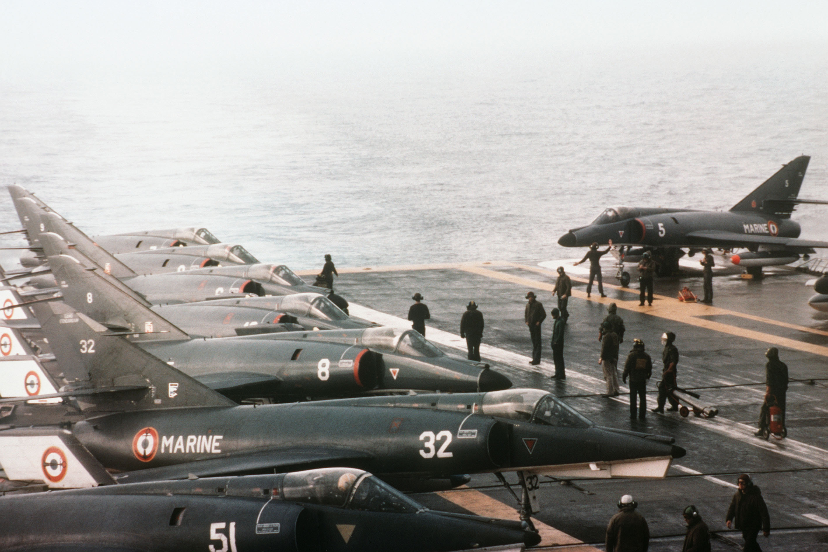 Six Aéronavale Dassault Super Étendard ant two Étendard IVM (foreground) fighters aboard the French aircraft carrier Foch (R99) off the coast of Lebanon, in 1983.